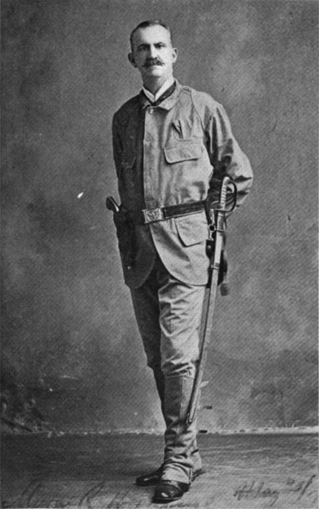 Photograph of Colonel Richard Henry Savage probably taken in the 1890s. Published in 1904 with the Annual Reunion of the United States Military Academy Association of Graduates.